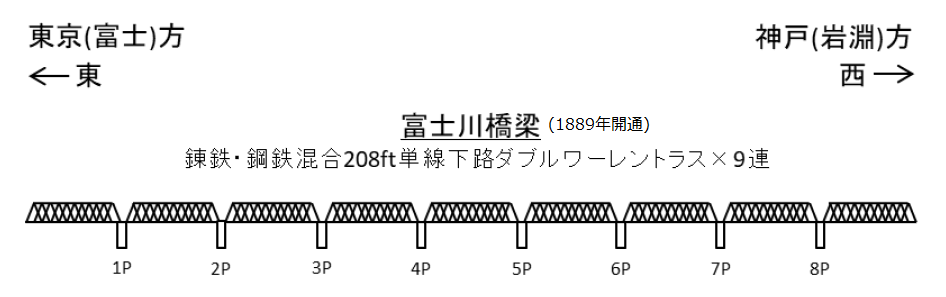 Description figure of Fujikawa railway bridge on Tokaido mainline, when the bridge was first constructed on 1889.